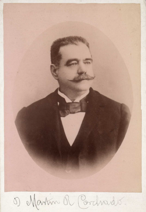 Picture taken in Ponce, Puerto Rico